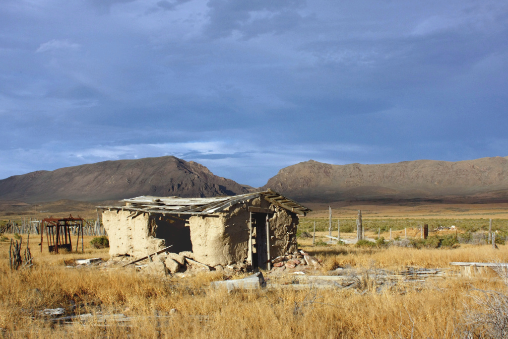 Reese River Valley, Lander County, Nevada, USA, abandoned shack with the Shoshone Range in the distance